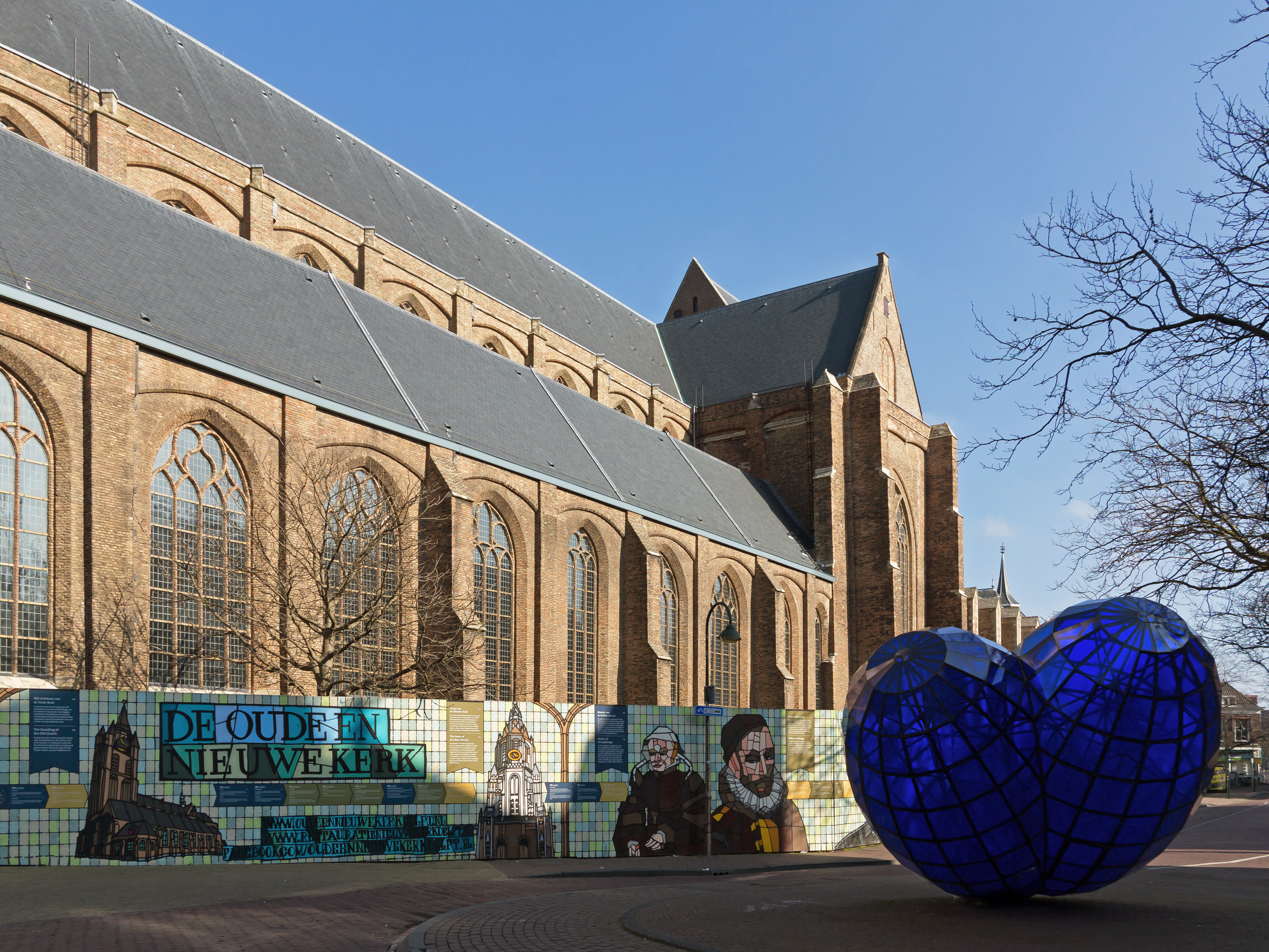 Delft, plastic art (het Blauwe Hart) near de Nieuwe Kerk